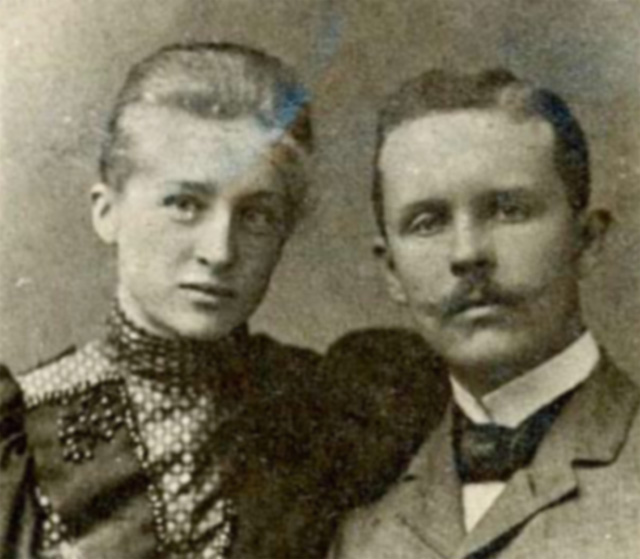 Fredrike and George Merck senior, founder of Merck & Co. on christmas 1898